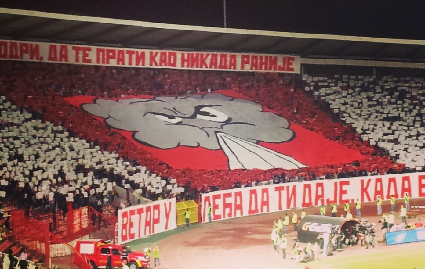 Delije, Red Star funs